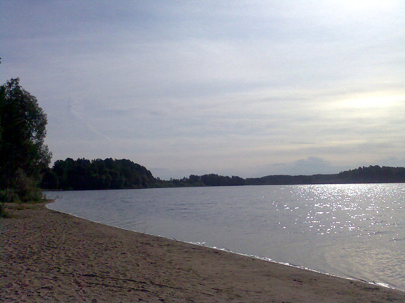 The beach of the Sapsho lake near the settlement of Przhevalskoye (Smolenskoye Poozyorye)